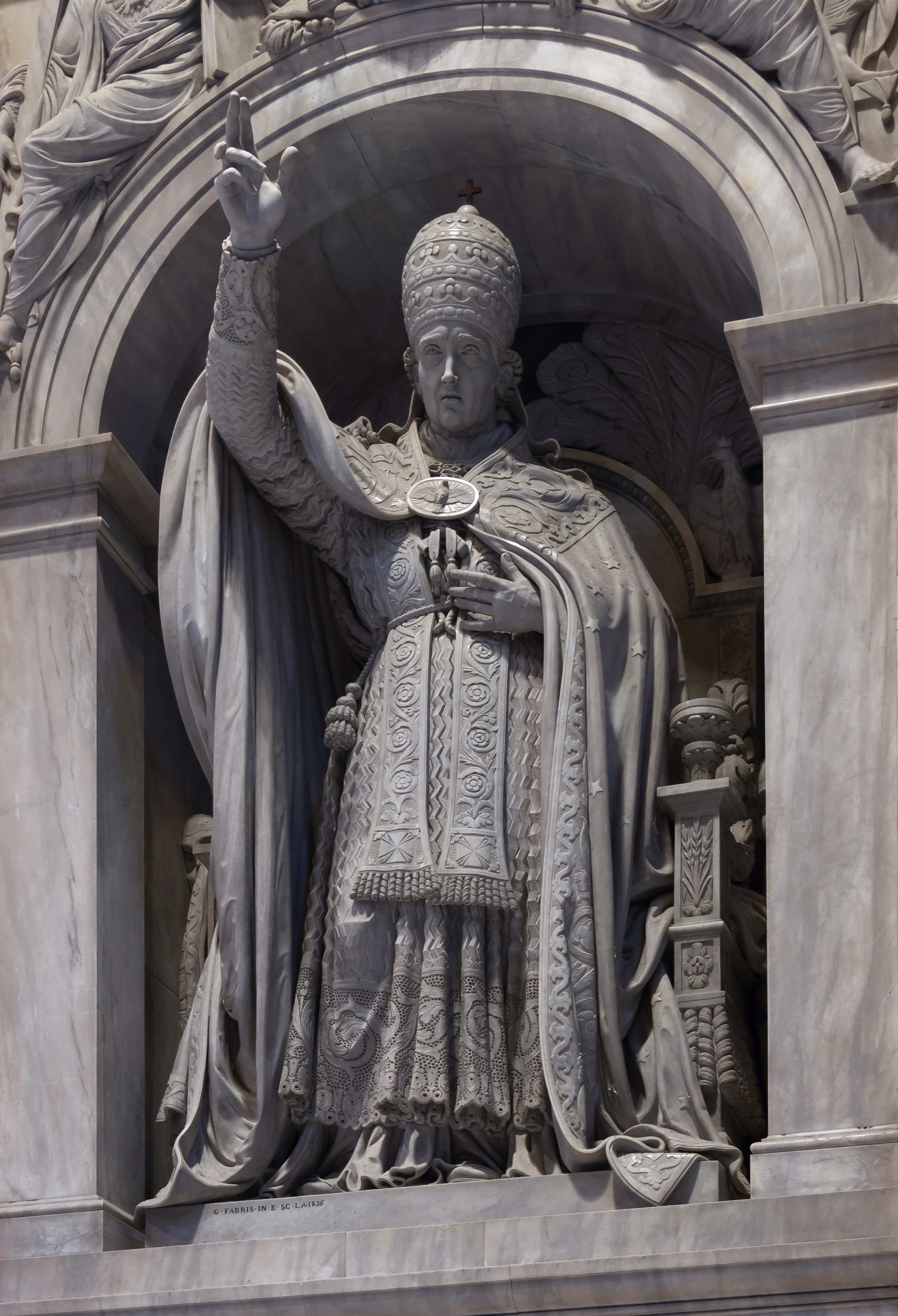 Statue to pope Leo XII, by Guiseppe Fabris, Saint Peter's Basilica, Vatican City.